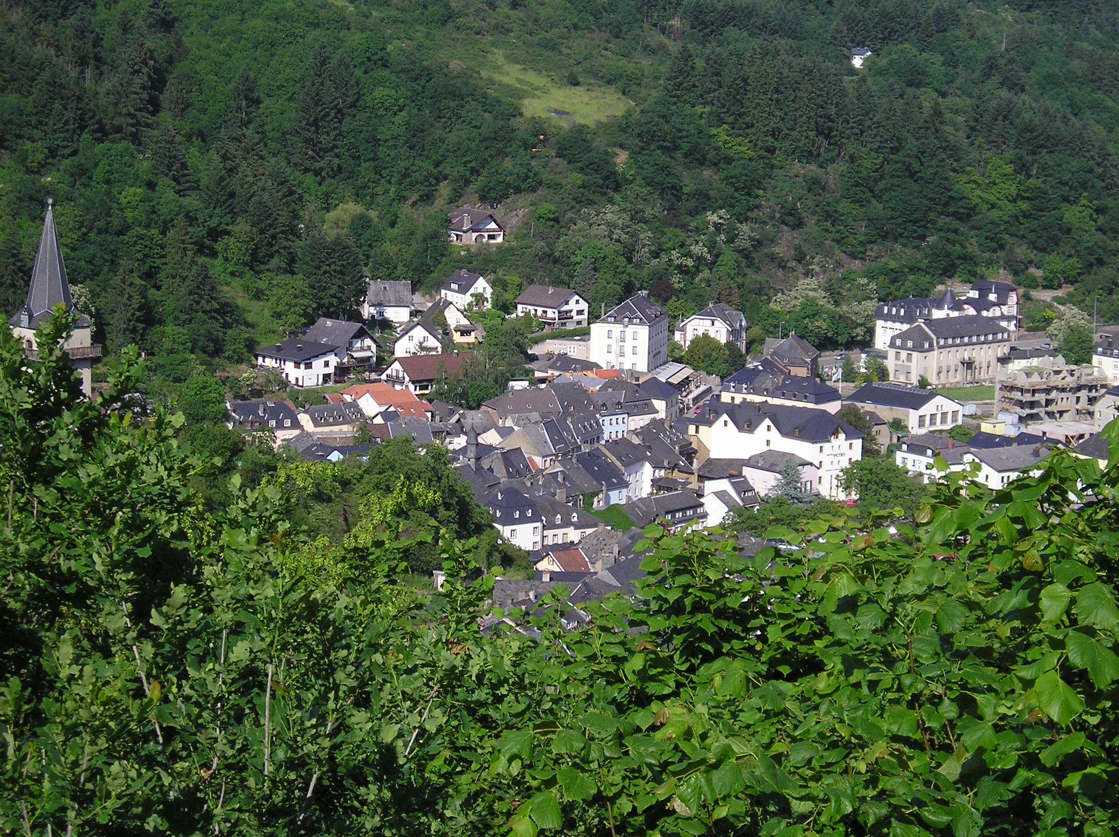 Vianden - overview